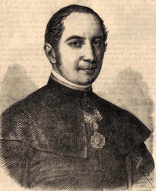 Portrait of János Danielik